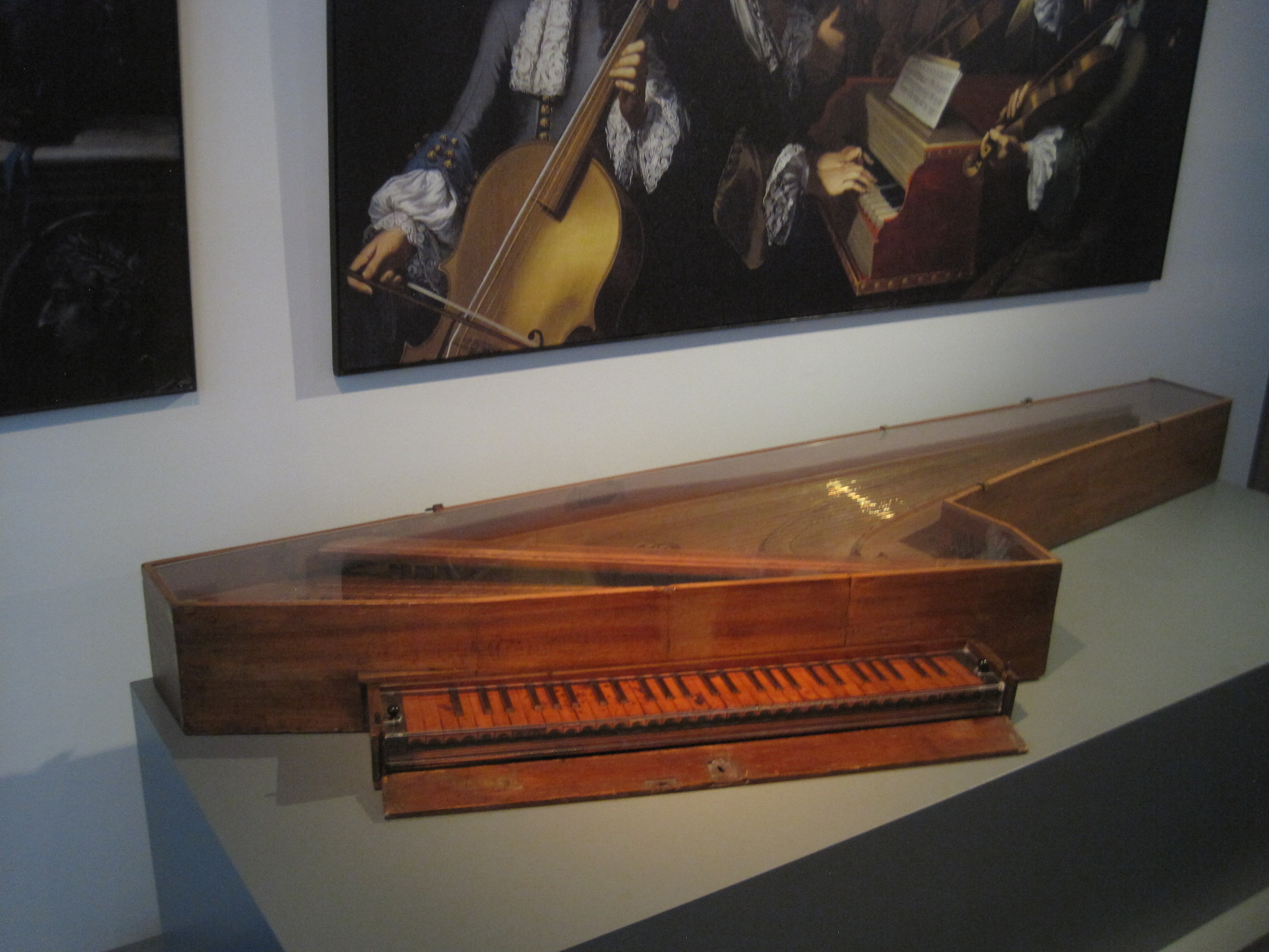 Spinettone (large spinet harpsichord) by Bartolomeo Cristofori, in the collections of the Musical Instrument Museum in Leipzig, Germany.